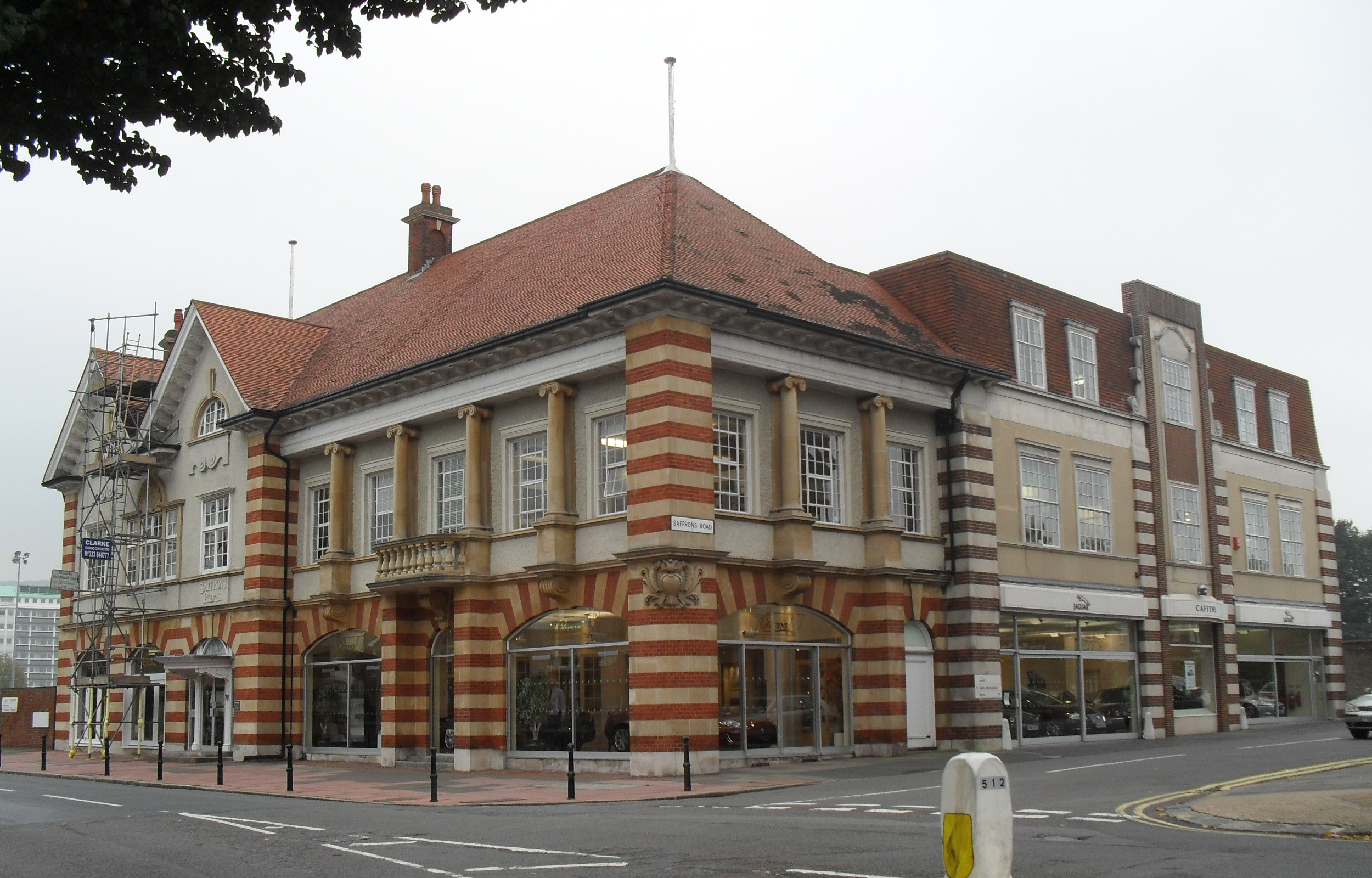 Former Caffyn's garage and showroom, Meads Road, Eastbourne, East Sussex, England. Listed at Grade II by English Heritage (NHLE Code 1393288)